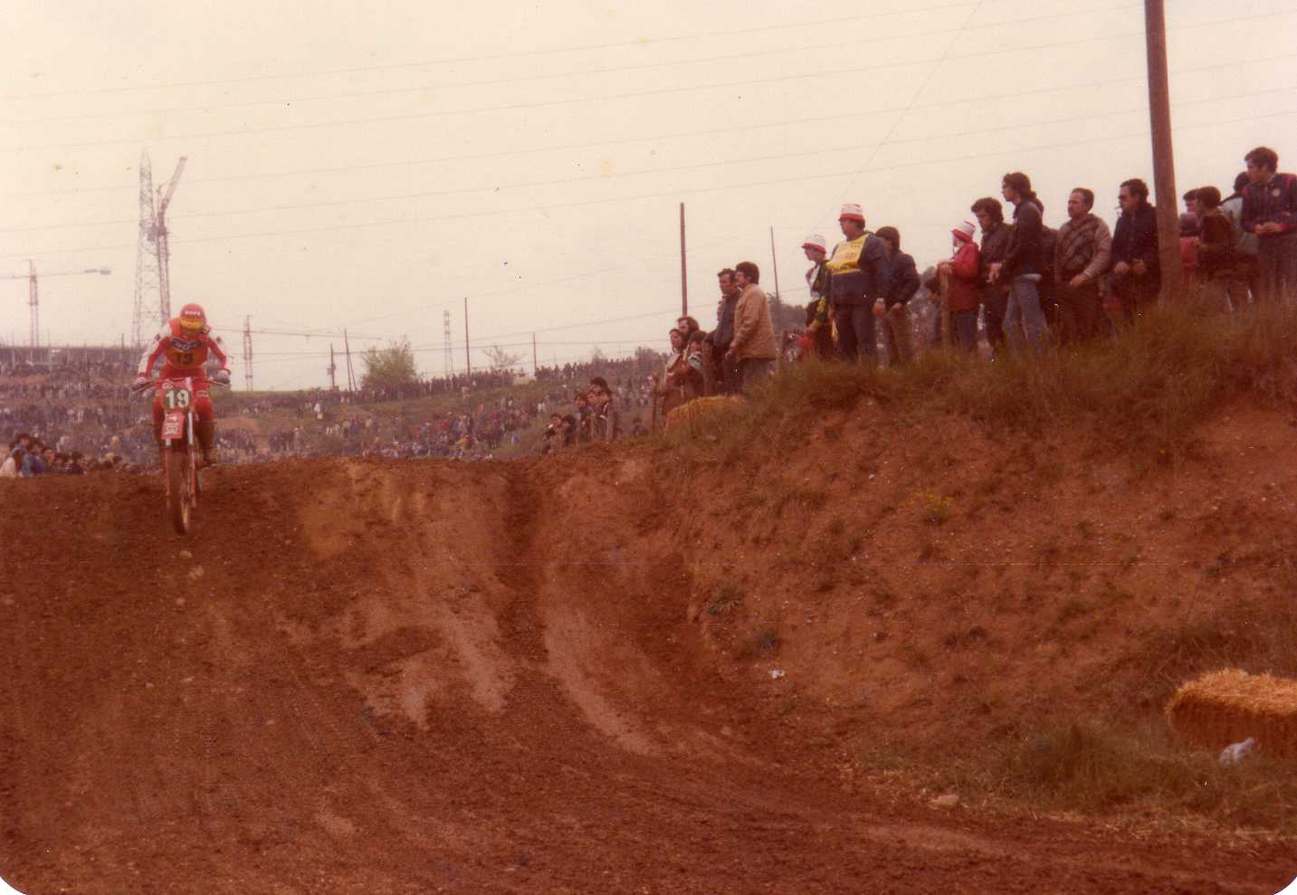 Fernando Muñoz (Maico) at Circuit del Vallès, Sabadell-Terrassa (Catalonia), during the 1980 spanish MX GP 250cc.